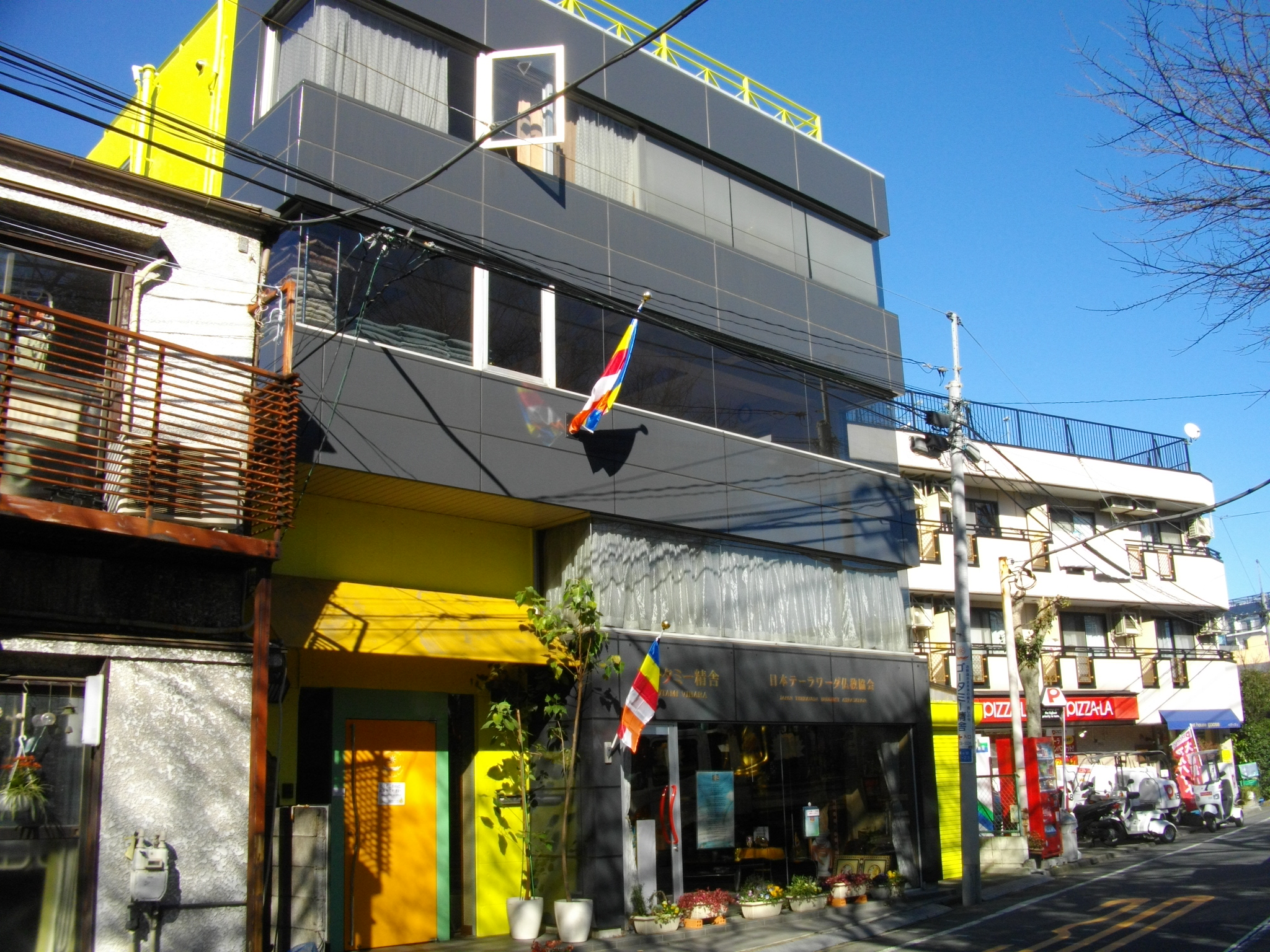 Gotami Vihara Temple